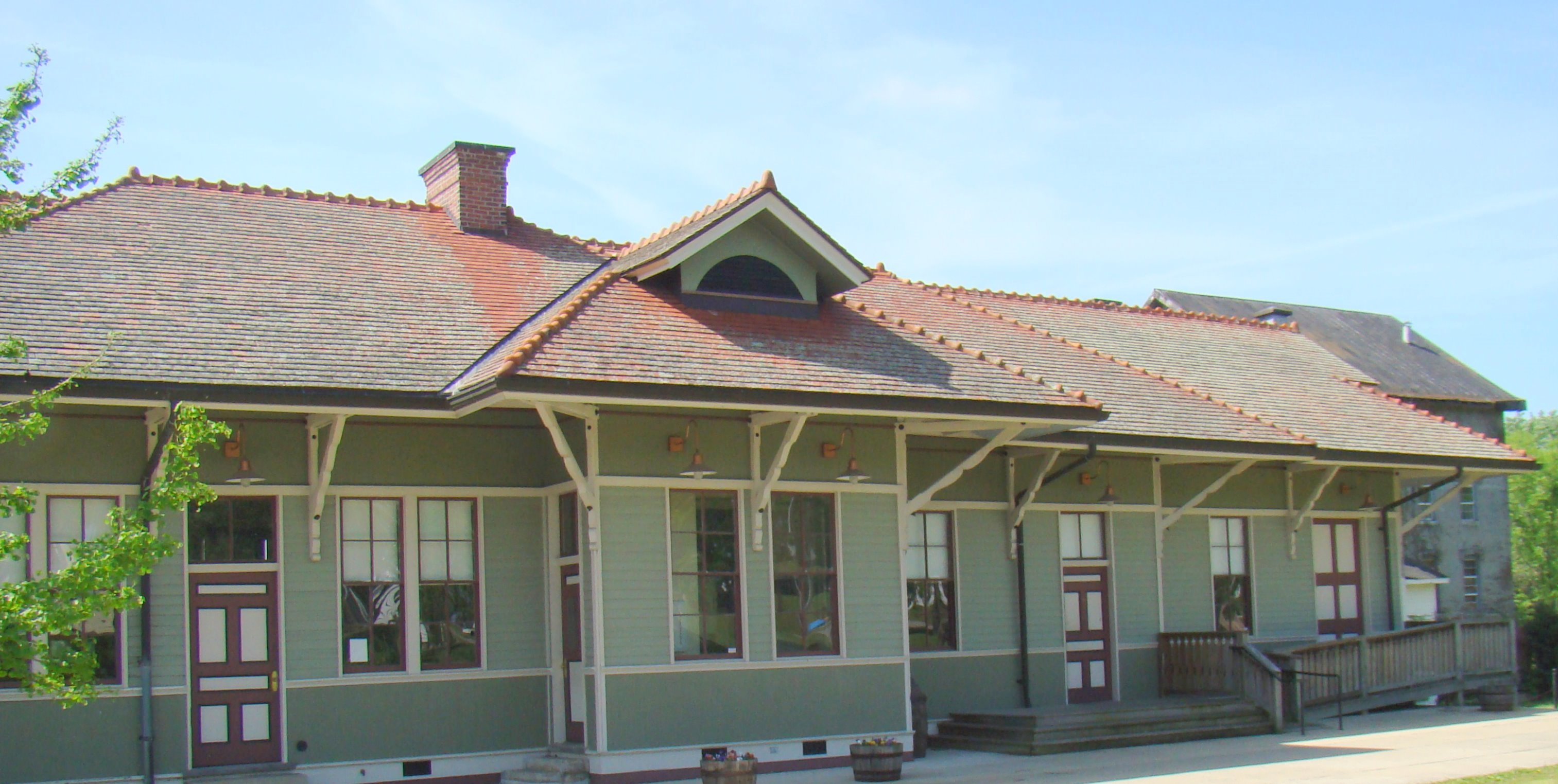 Stanford L&N Railroad DepotA historic railroad depot located at the intersection of Depot Street and Mill Street in Stanford, Kentucky.